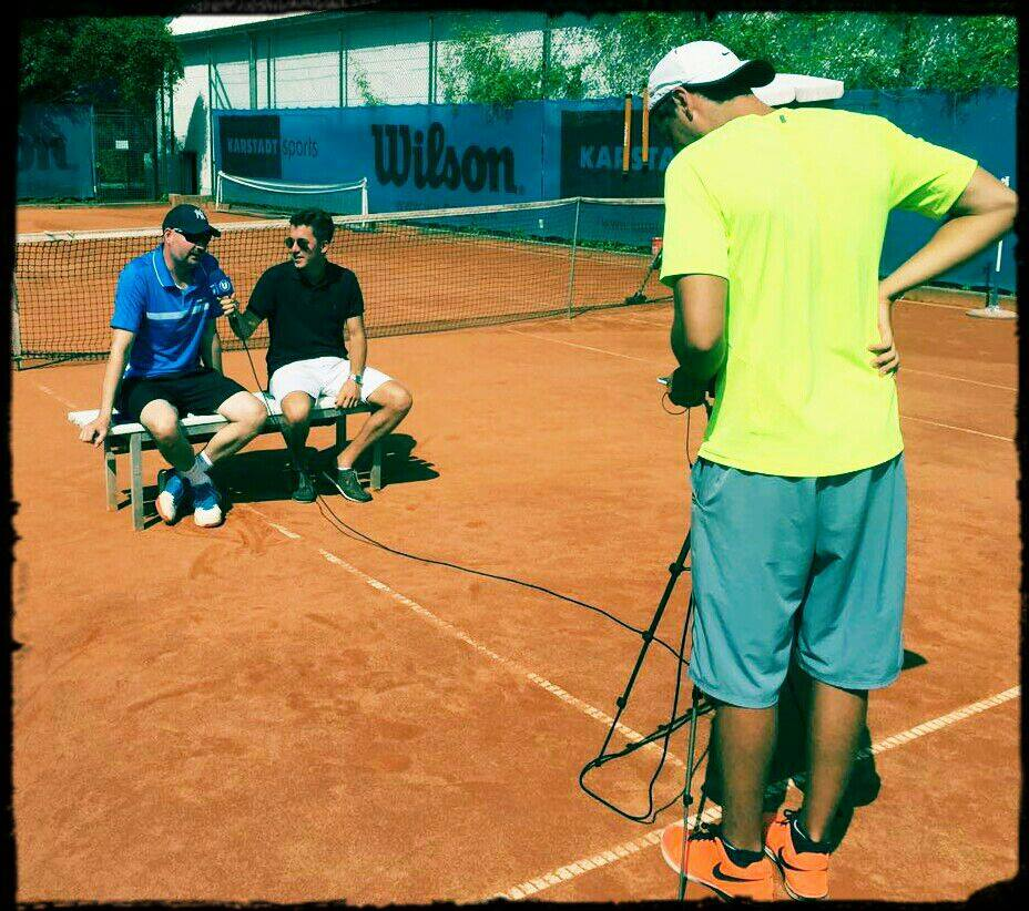 Ring Rajen interviewing Alex radulescu